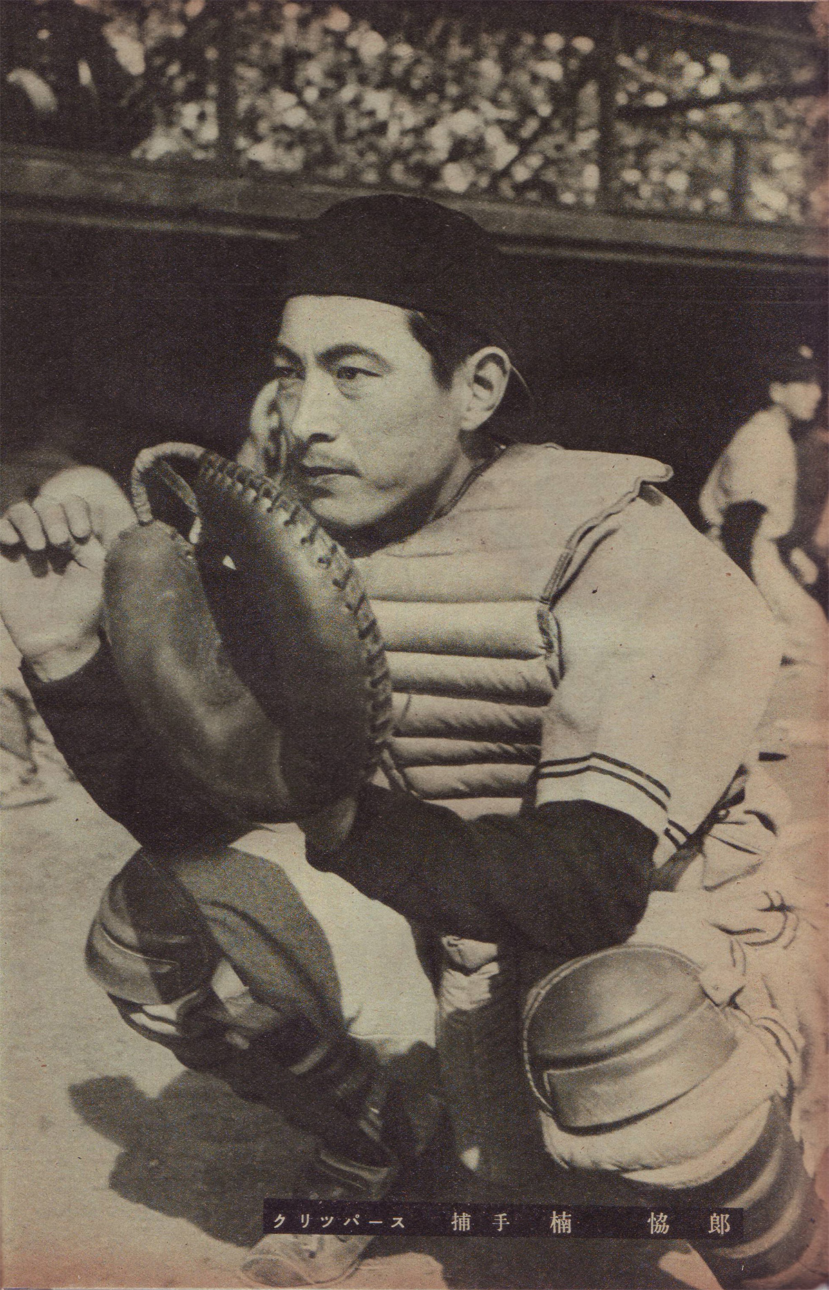 Yasuo Kusunoki(Nishitetsu Clippers). taken in 1950.